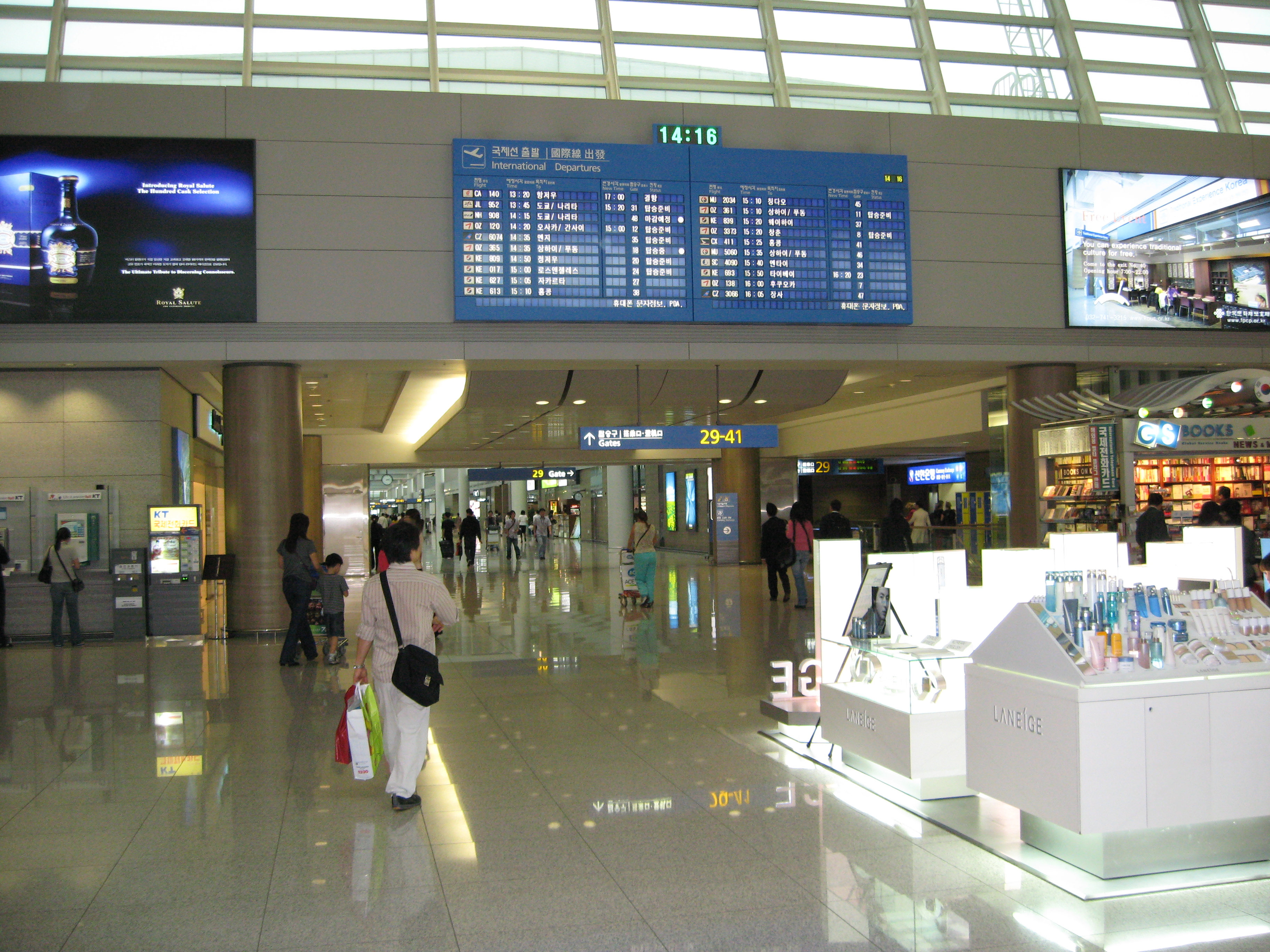 Departure hall at Seoul-Incheon airport.